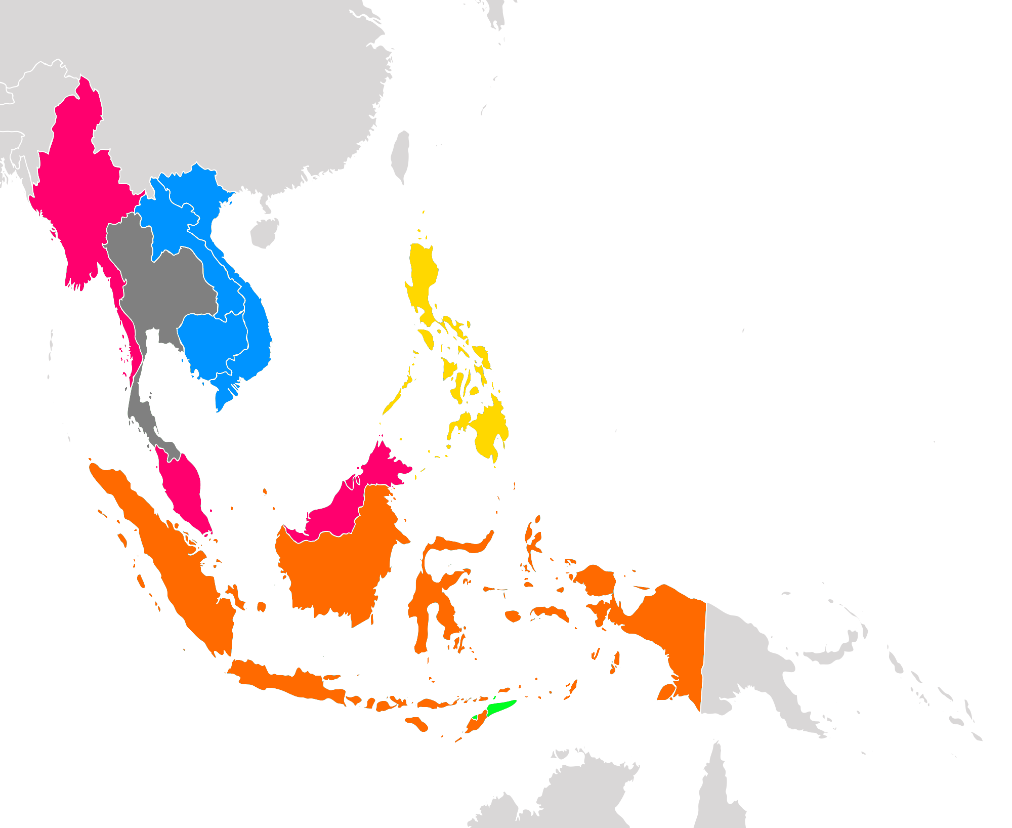 European colonisation of Southeast Asia.Legend: France (French Indochina) Netherlands (Dutch East Indies) Portugal (Portuguese Timor) Spain (Spanish East Indies) United Kingdom (British Burma, Malaya and Borneo)